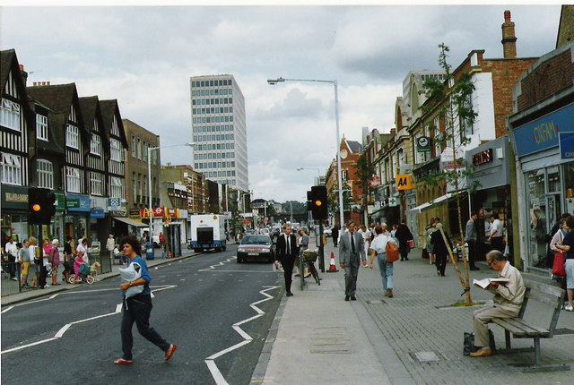 A busy morning at New Malden.